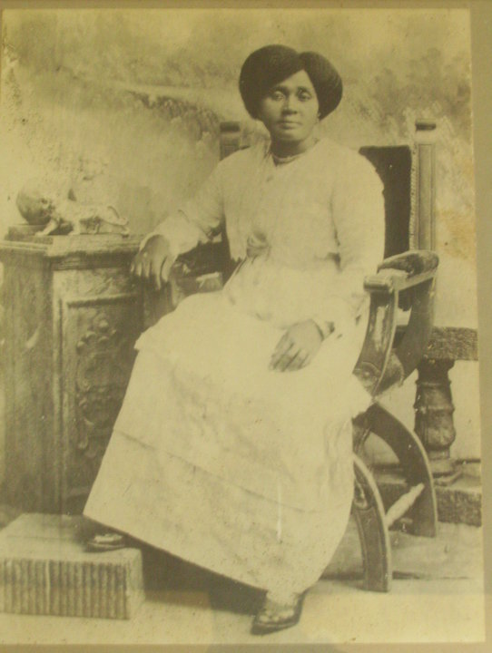 A late 19th century studio photoshoot of Anna Alice Meyer, the Euro-African wife of the Basel missionary, Nicholas Timothy Clerk, who became the first Synod Clerk of the Presbyterian Church of the Gold Coast.